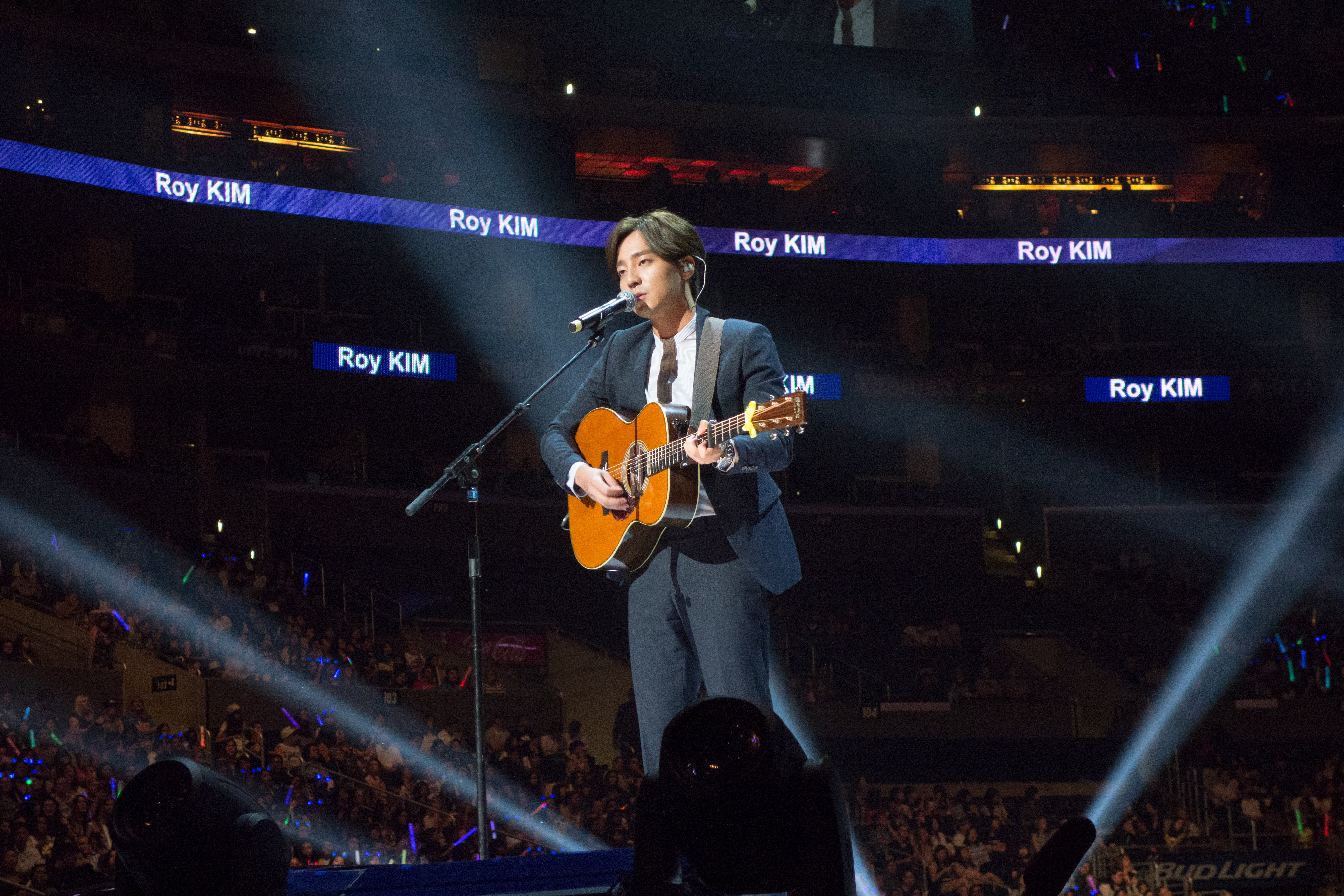 KCON 2015, Roy Kim on stage.